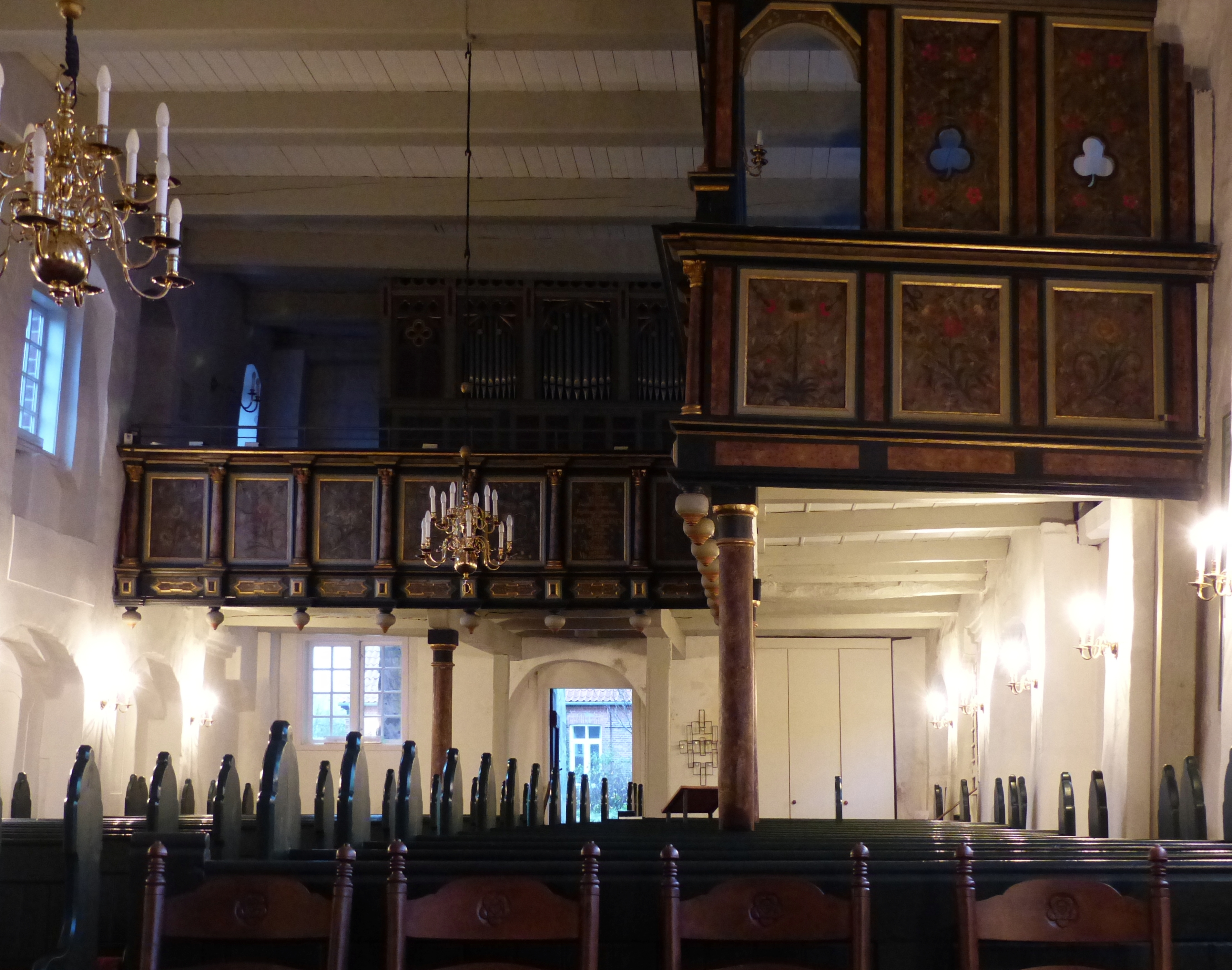 Asymmetric gallery of Neuenwalde Convent church 53°40′34″N 8°41′31″E / 53.6761344°N 8.6919211°E